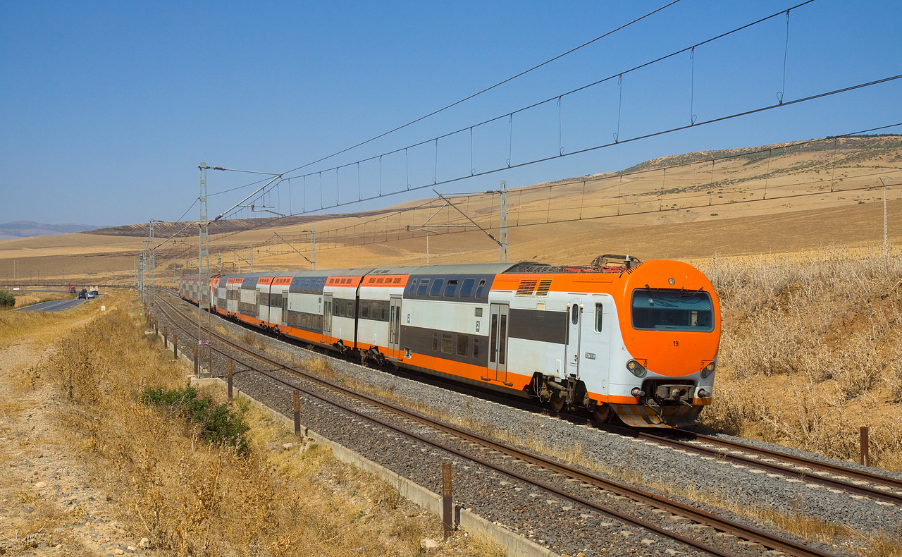 EMU Z2M of ONCF between Sidi Mbarek du R'Dom and Bab-Tisra, Morocco